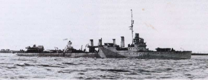 The British Town-class destroyer HMS Broadway (H90) underway in March 1942, probably on trials after her refit at Sheerness.